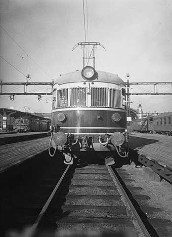 Norges Statsbaner type 66 express train at Oslo Østbanestasjon, Norway.